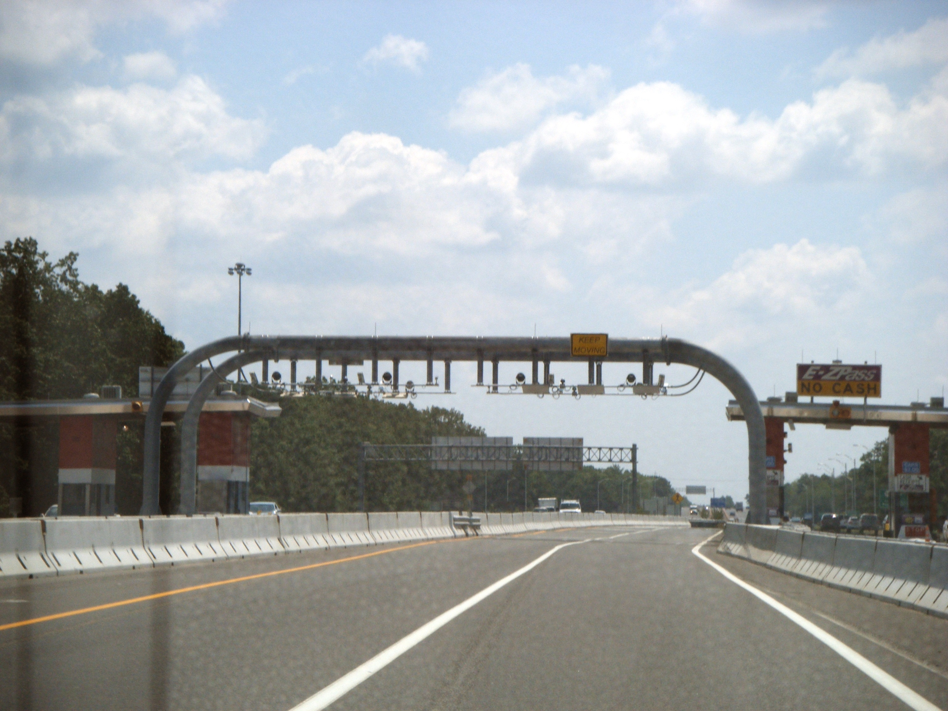 Express E-ZPass lanes at the Egg Harbor toll plaza on the Atlantic City Expressway in Hamilton Township, New Jersey, heading eastbound.